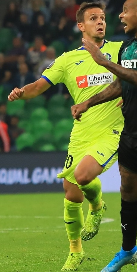 Nemanja Maksimović with Getafe CF in an Europa League game against FC Krasnodar.